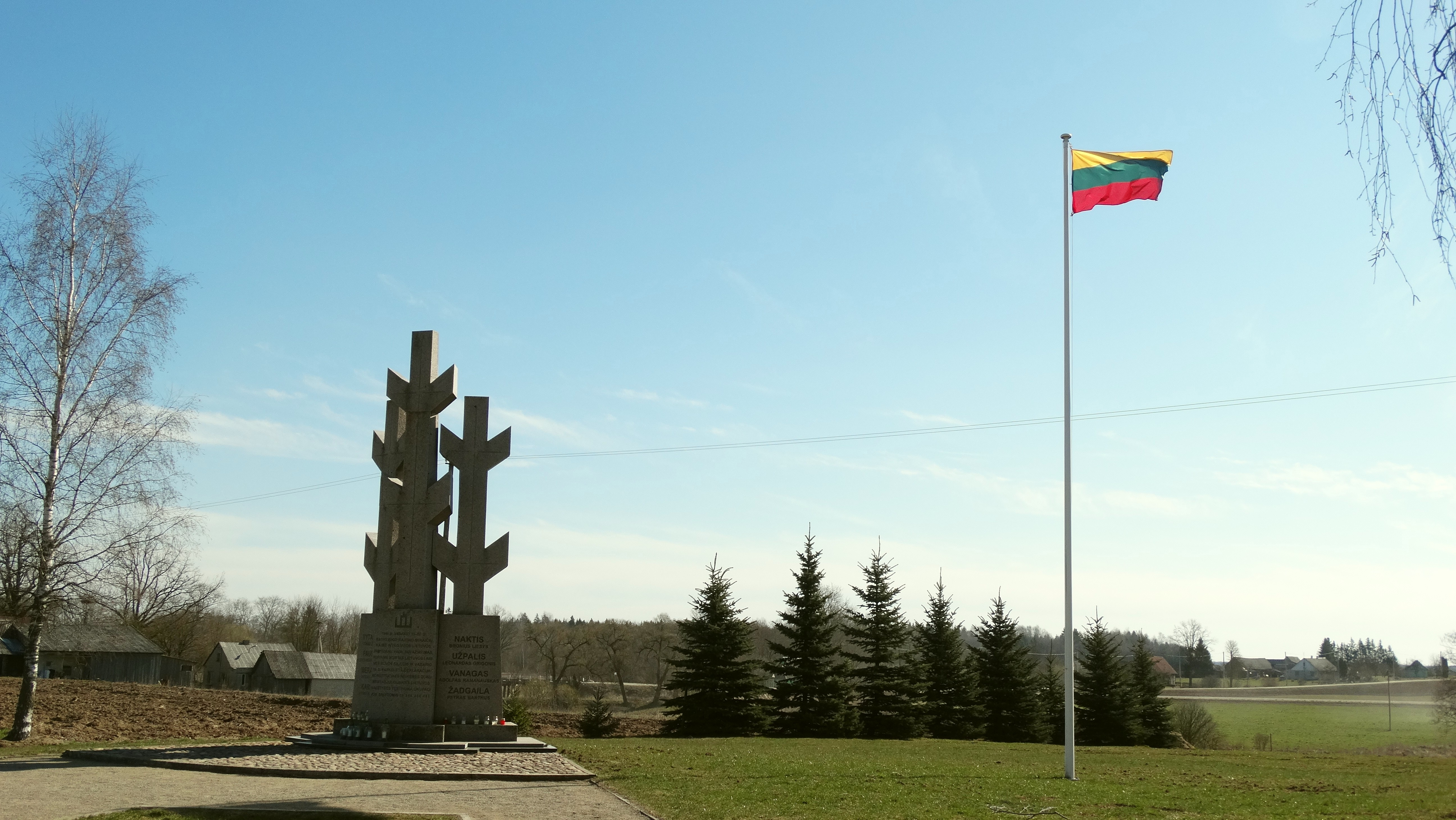 Minaičiai, Radviliškis district, Lithuania